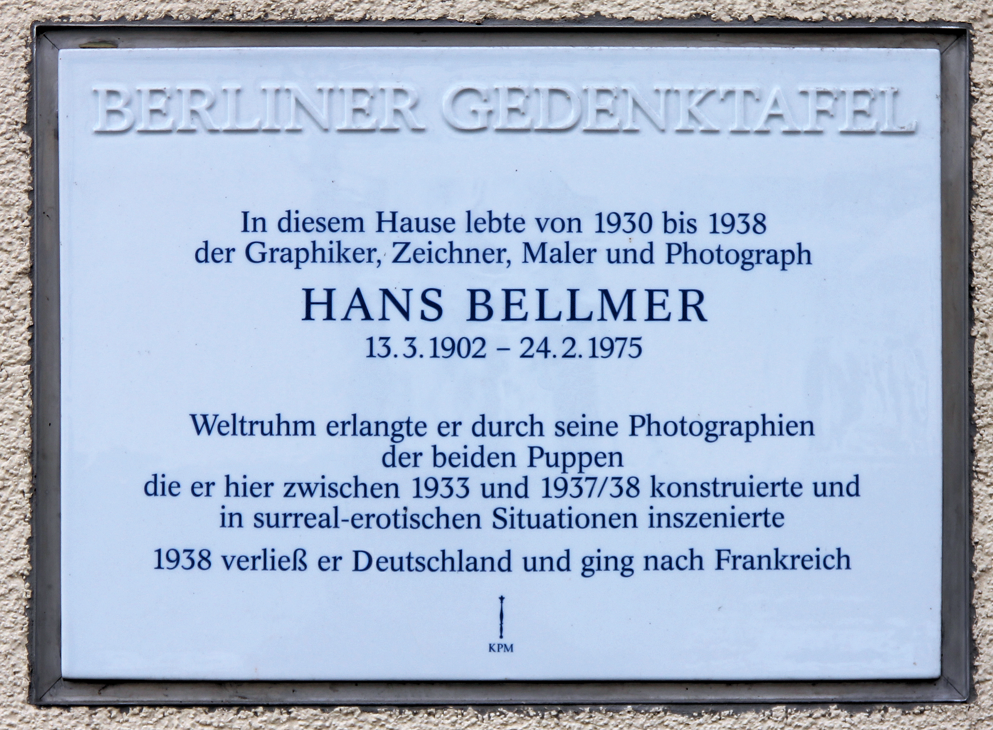 Berlin memorial plaque, Hans Bellmer, Ehrenfelsstraße 8a, Berlin-Karlshorst, Germany